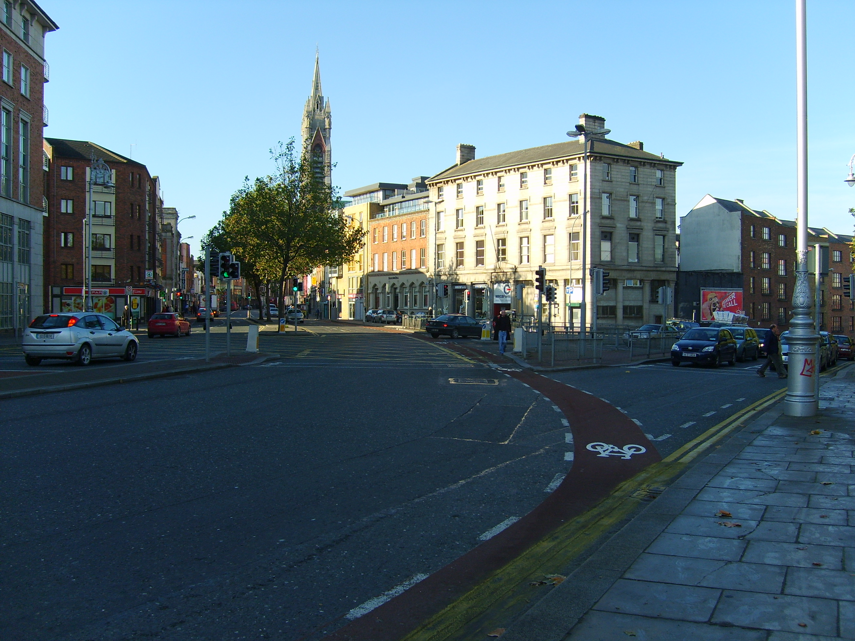 Digital photograph of Cornmarket, Dublin